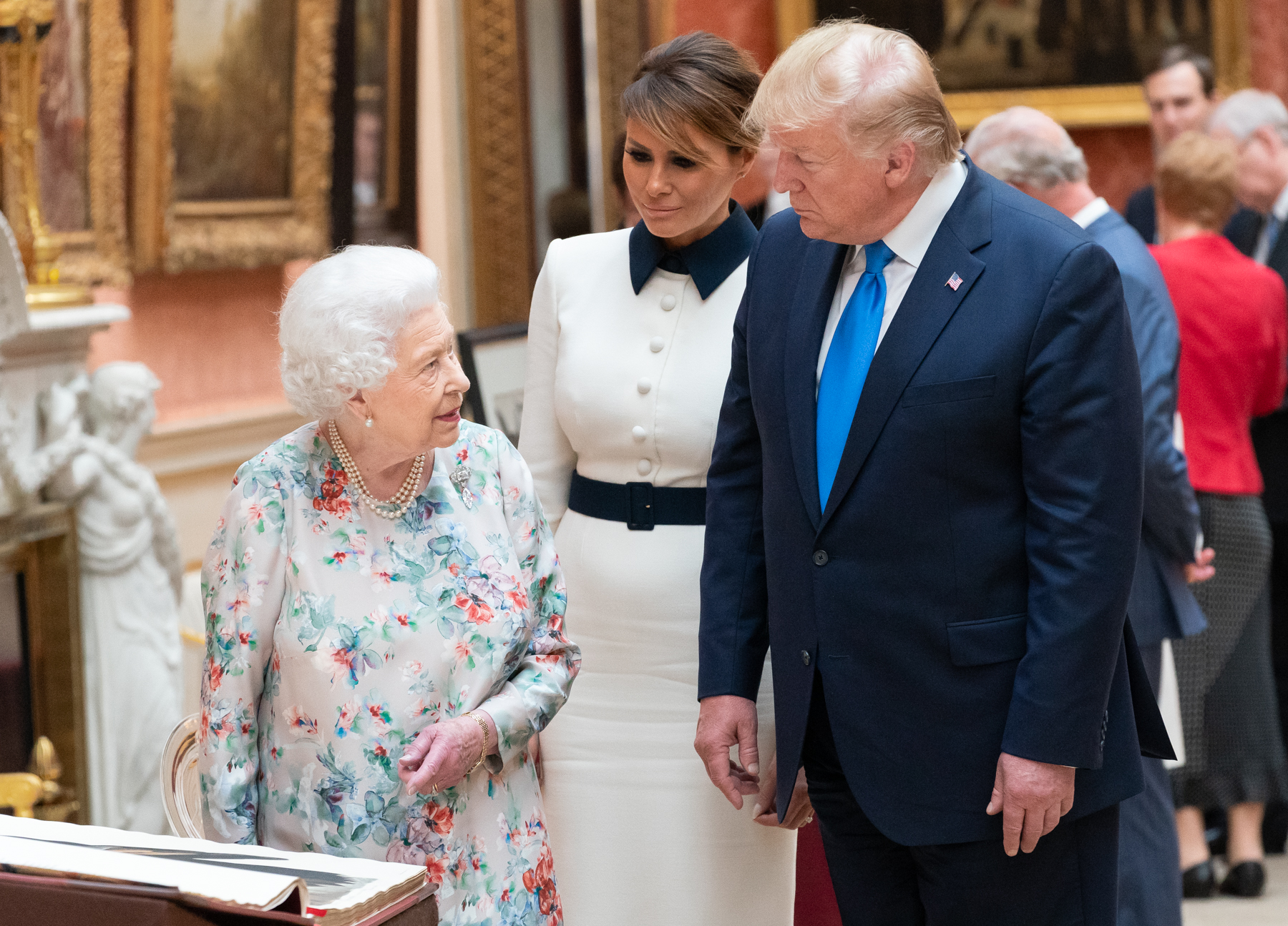 President Donald J. Trump and First Lady Melania Trump review items from the Royal Collection with Britain’s Queen Elizabeth II Monday, June 3, 2019, in the Picture Gallery at Buckingham Palace in London. (Official White House Photo by Andrea Hanks)